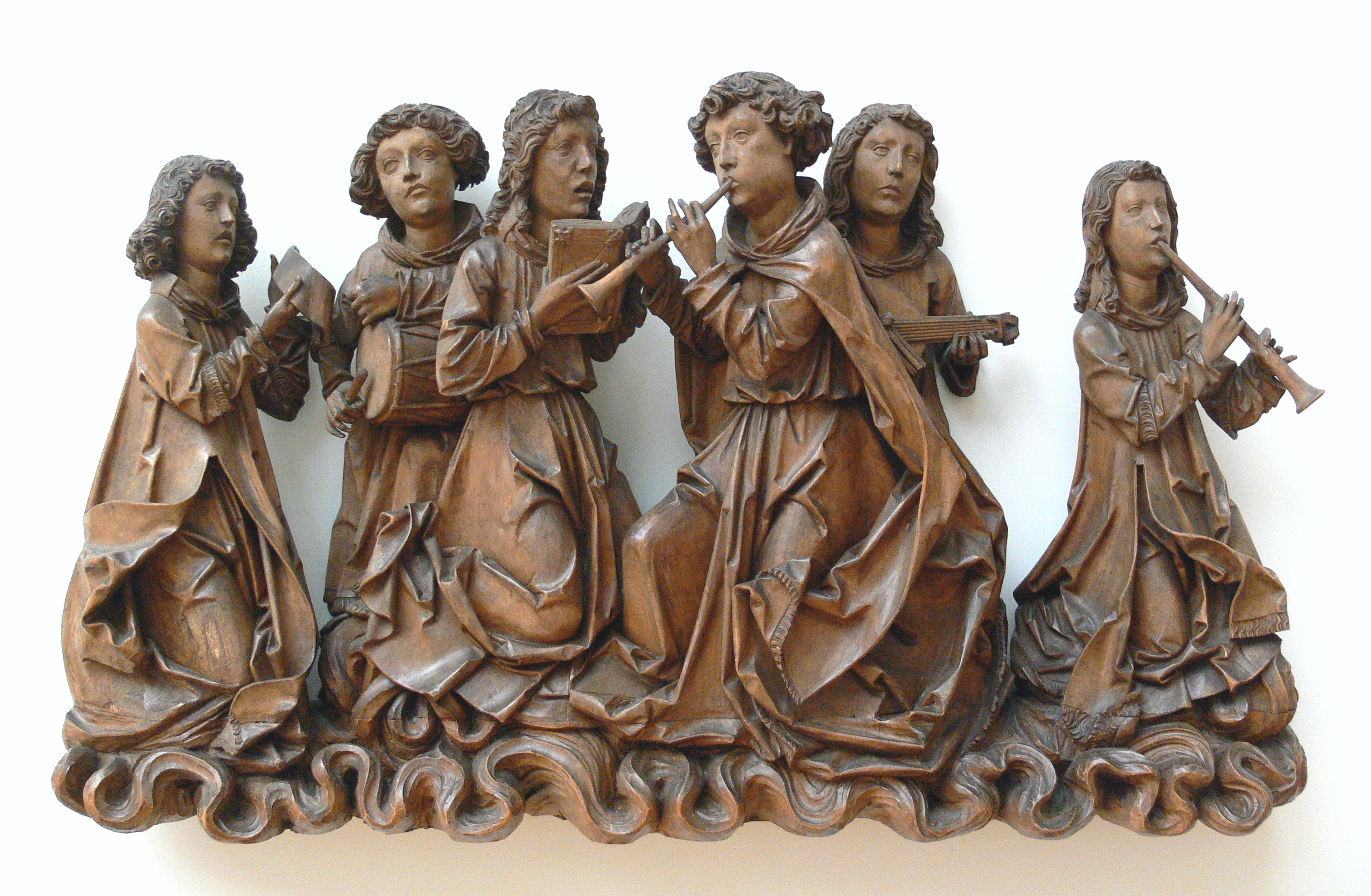 Tilman Riemenschneider (workshop): Angels singing and playing musical instruments, c. 1505, limewood. Skulpturensammlung (inv. no. 1559, donated in 1889 by A. Thiem), Bode-Museum Berlin.